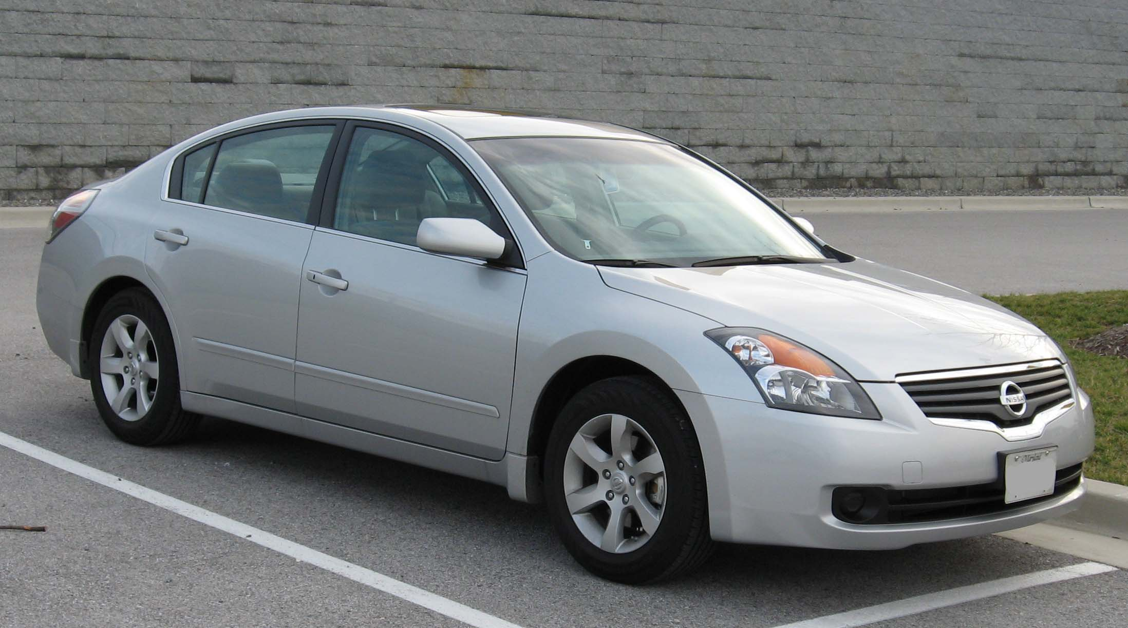 2007 Nissan Altima 2.5S photographed in USA.